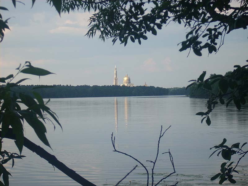 Licheńskie Lake and Basilica of Our Lady of Licheń